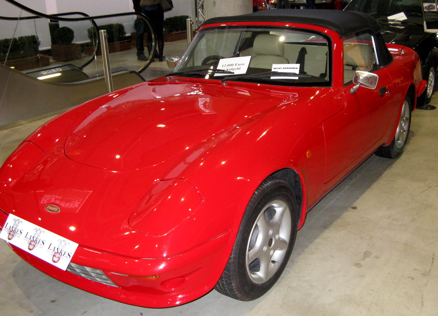 1993 Evante Mk. 2